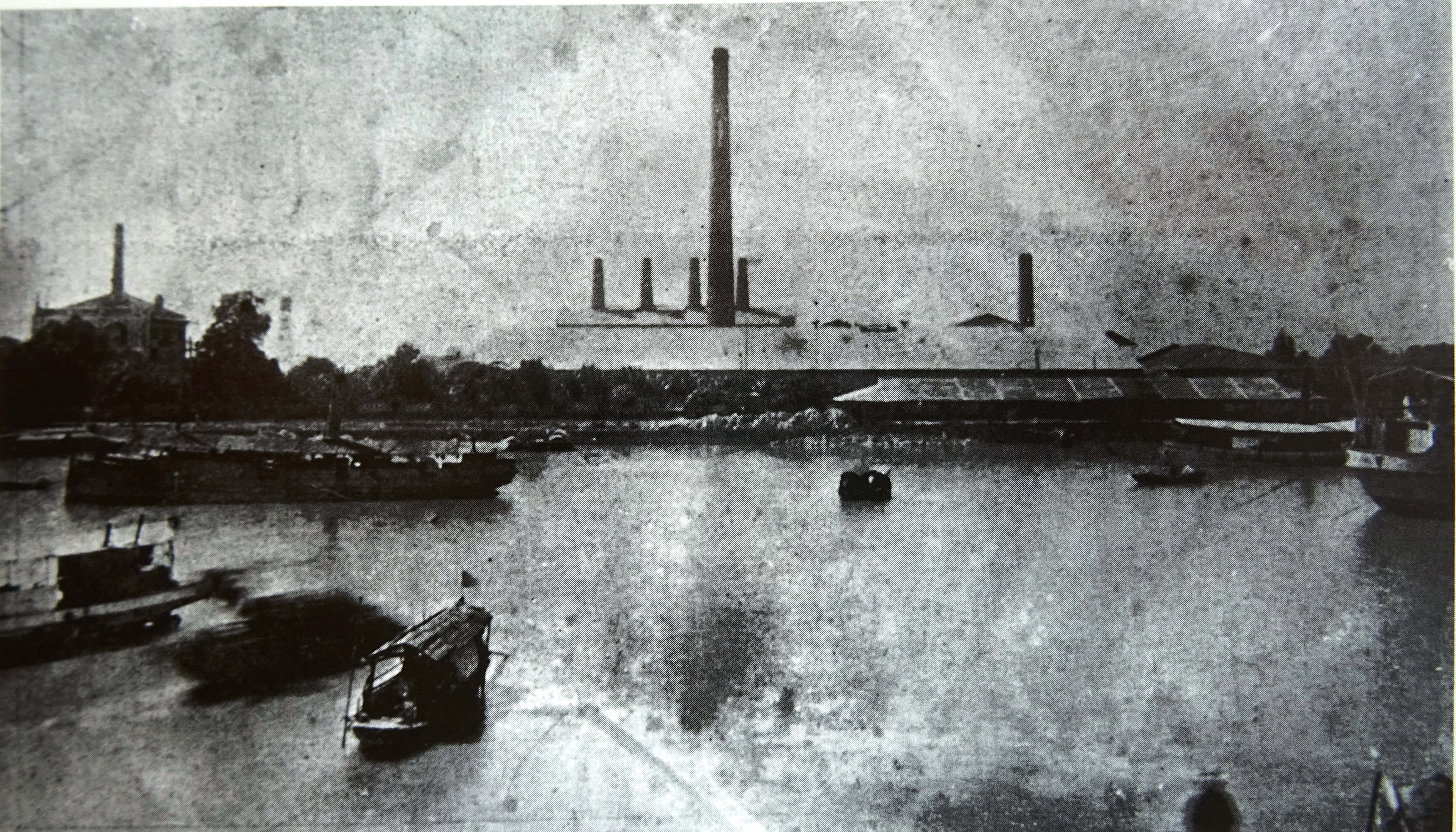 The Cement Factory in Honam of Canton, Kwangtung. Buildings was designed by Purnell and Paget.